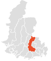 Location map for Marnardal in Vest-Agder, Norway